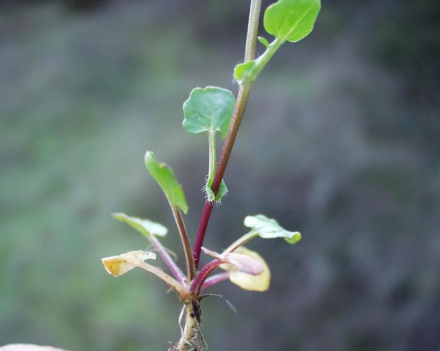 (en) Barbaraea verna, a photography originating of the internet site The accord of the autor, H. Brisse, is here. (fr) Barbaraea verna, une photographie issue du site internet L'accord de l'auteur, H. Brisse, se situe ici.